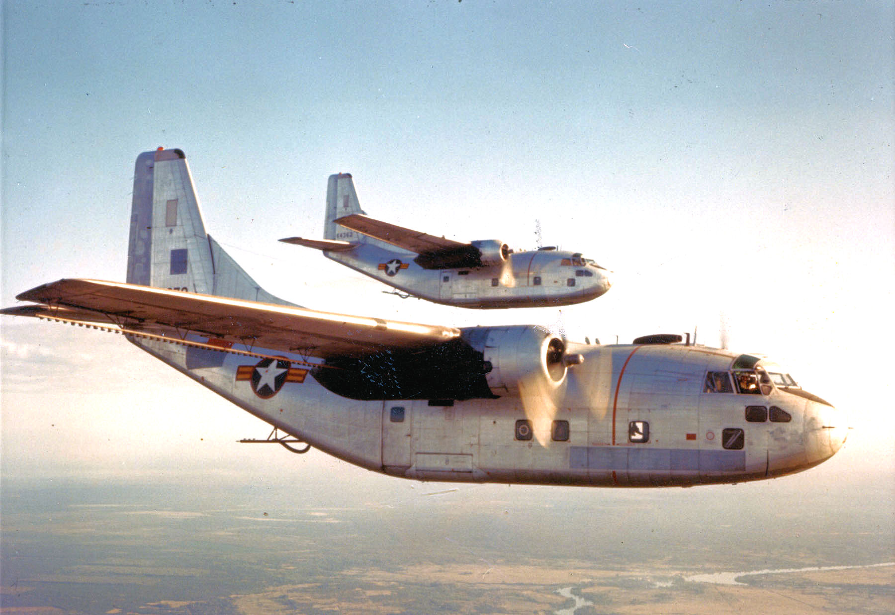 Early in the Ranch Hand program (and later on anti-crop missions) in South Vietnam, Ranch Hand UC-123s carried South Vietnamese Air Force markings and a South Vietnamese military representative on board. (U.S. Air Force photo)